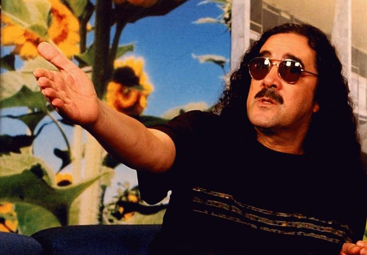 Brazilian musician Morais Moreira.